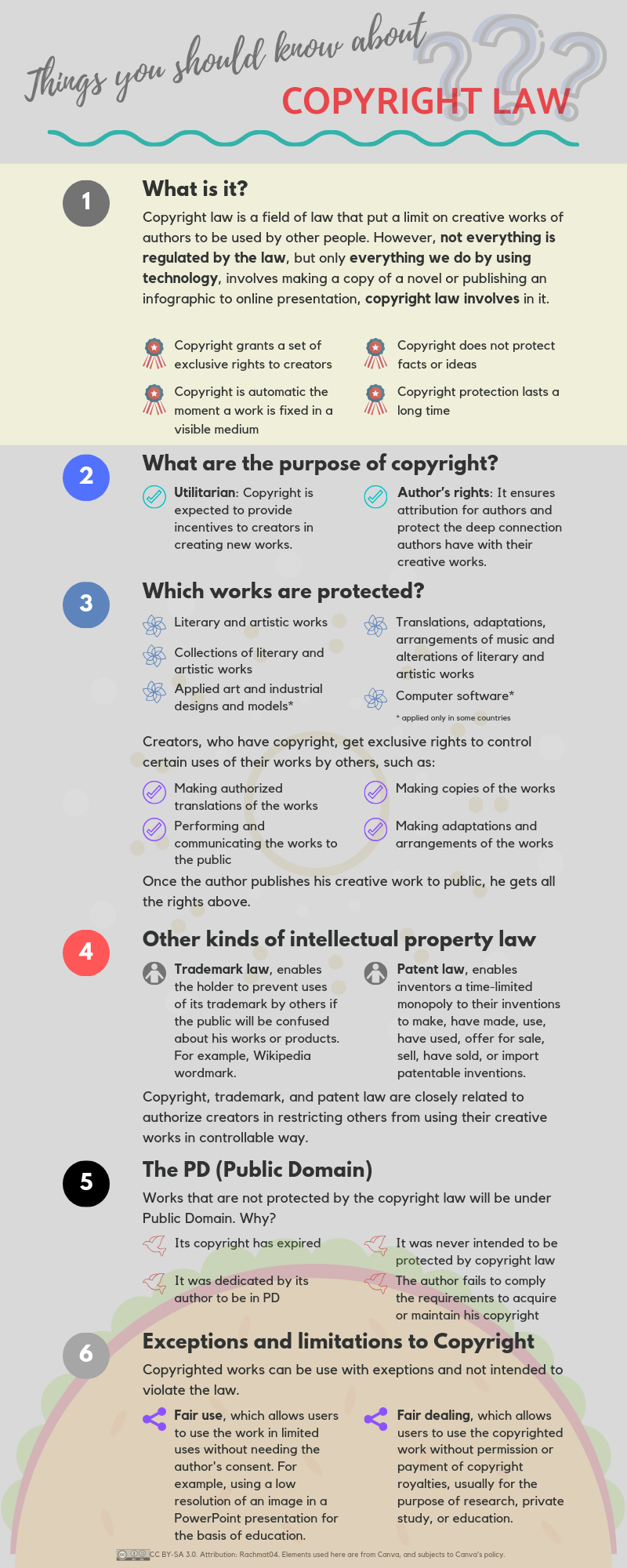 "Things you should know about copyright law" infographic, presented in PNG.